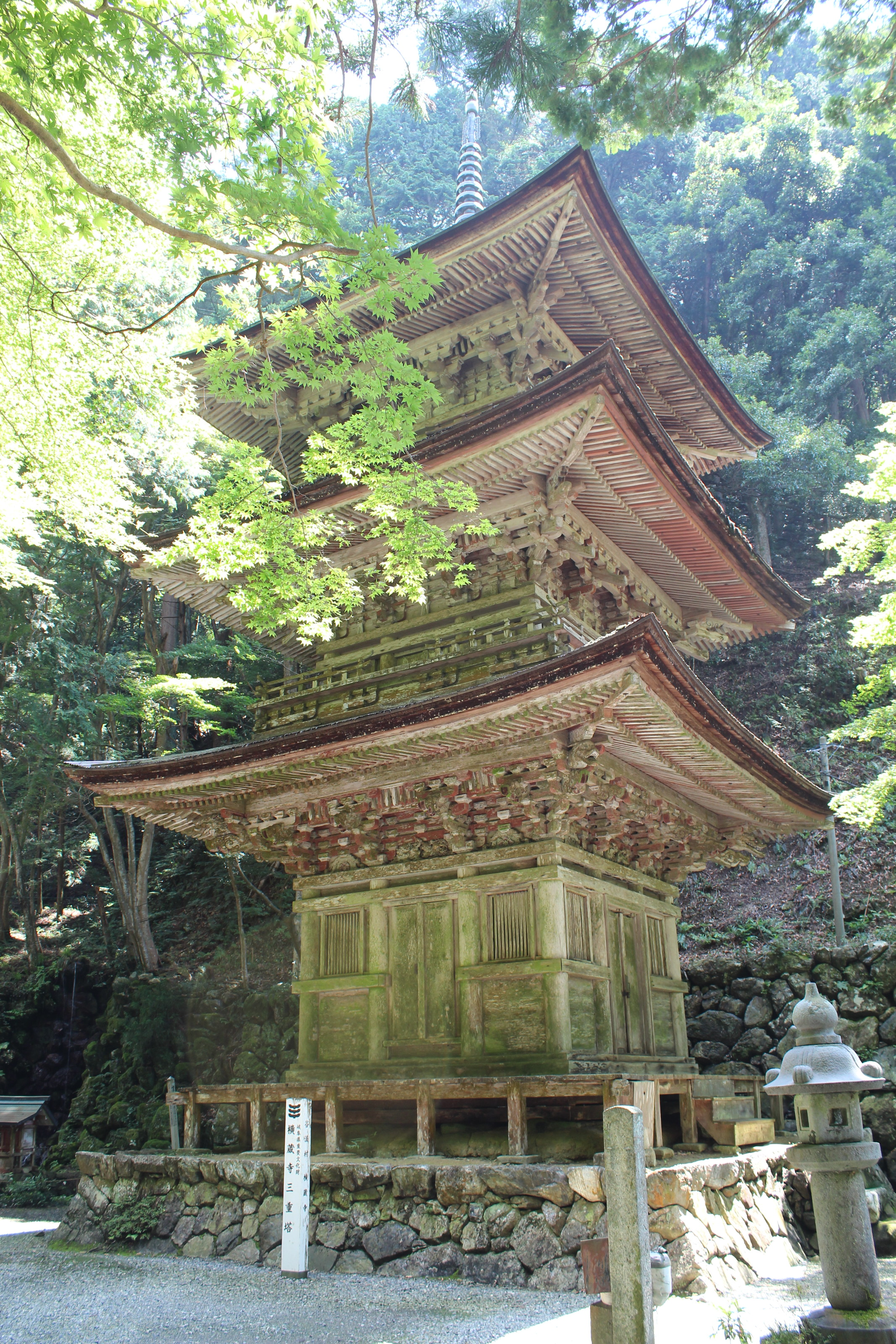 Yokokuraji Three-storied Pagoda , Ibigawa, Gifu, Japan.